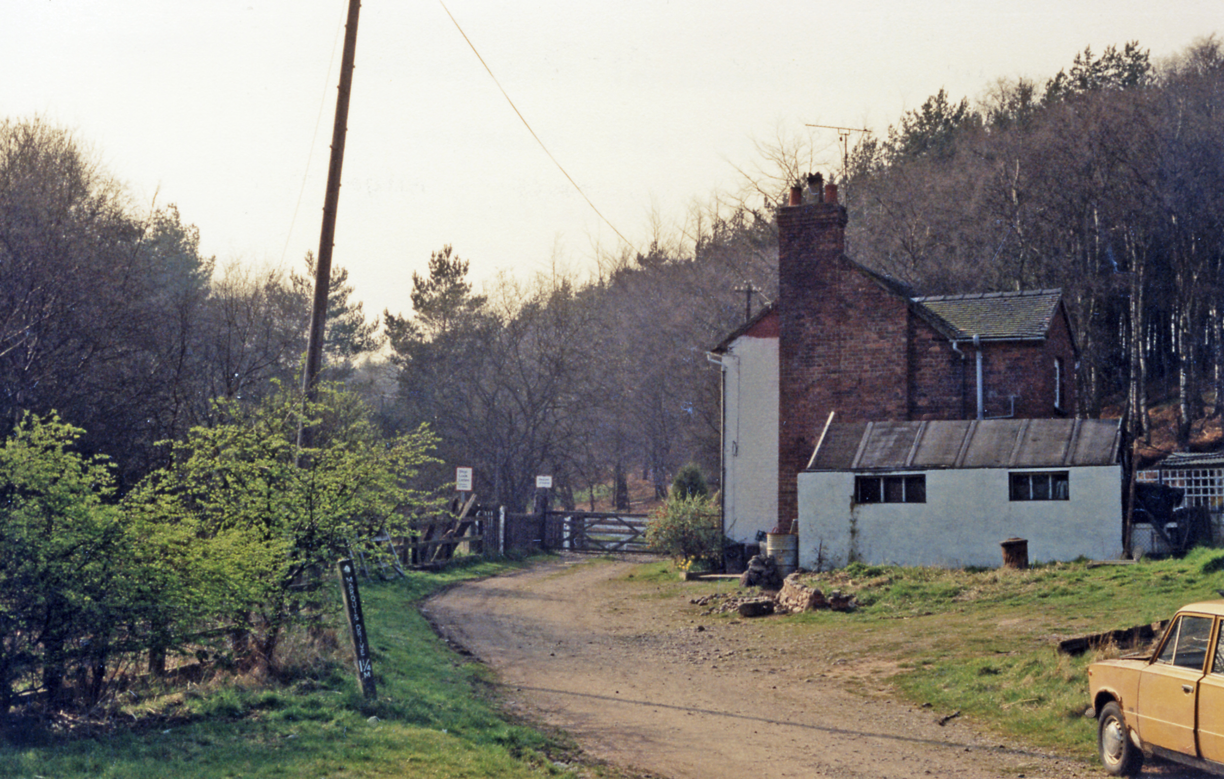 Site of Brindley Heath station, 1989. View northward, towards Rugeley: ex-LNW Walsall - Rugeley (Trent Valley) line. The line was closed to passengers (only) on 18/1/65, but restored from 8/4/89 - one week after I took this photograph. However, there had been a station here between 26/8/39 - 6/4/59, only for passengers.